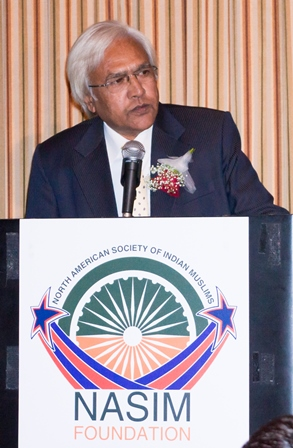 Rais Ansari attending a poetry function in North America organised by Aligarh Alumni Association